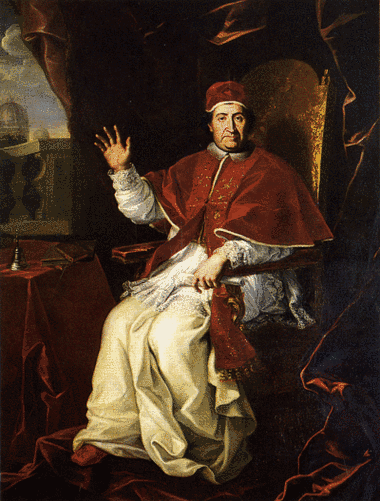 Portrait Pope Clemens XI